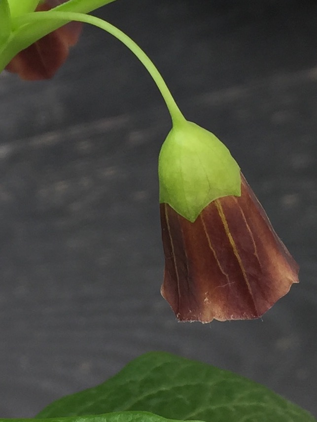 Scopolia carniolica Jacq. Cultivated plant. Close-up of single flower.